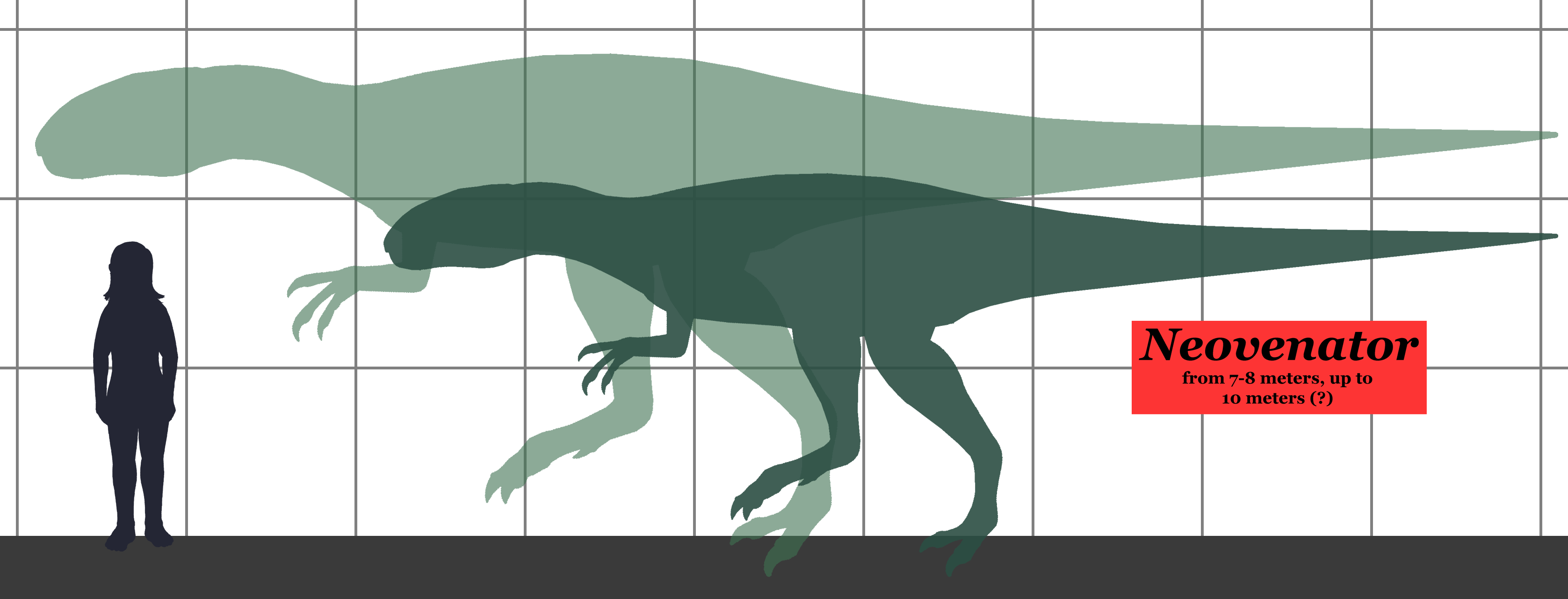 Size comparison between the theropod dinosaur Neovenator and a human. It is usually regarded as about 7-8 meters long (the smaller silhouette), but some fossil pieces indicate a possible size of about 10 meters (the larger).[1] References ↑ , Dodoson P, Weishampel D. B & Osmólska H, The Dinosauria (2:nd edition (2004)), University of North Carolina Press, p. 104.